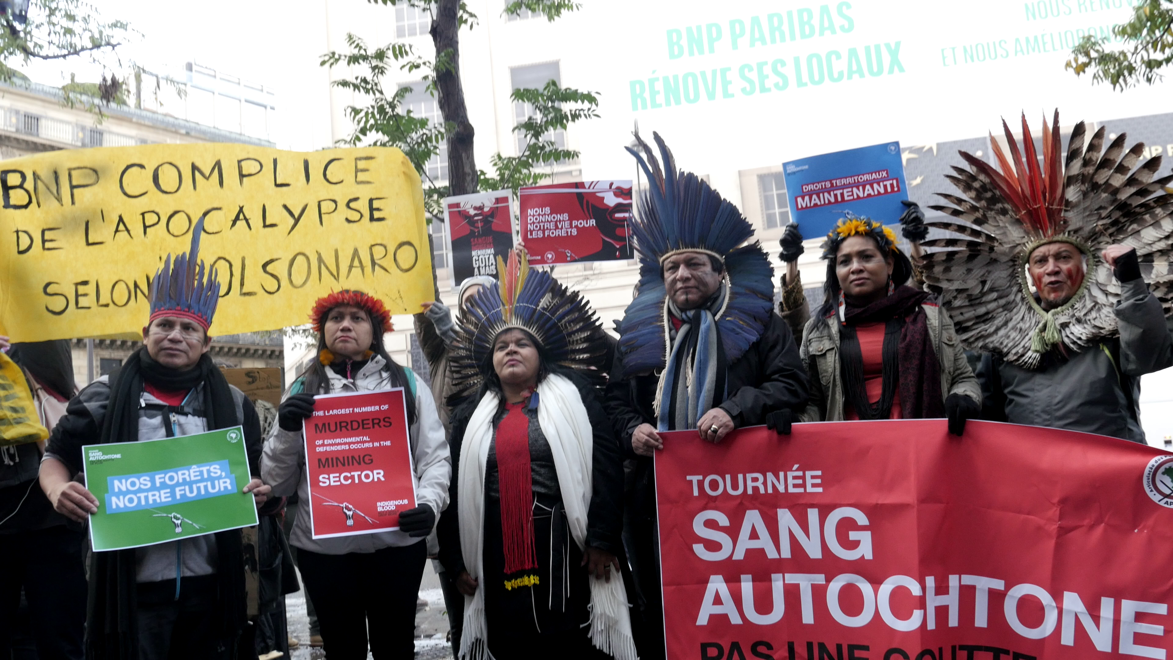 From left to right, Elizeu Guarani Kaiowá, Nara Baré, Sonia Guajajara, Alberto Terena, Angela Kaxuyana and Kretã Kaingang, all members of the APIB (Articulation of Indigenous Peoples of Brazil) in Paris, November 12, 2018, demonstrating in front of the headquarters from the BNP Paribas bank, during the European tour "Indigenous Blood, not a drop more".